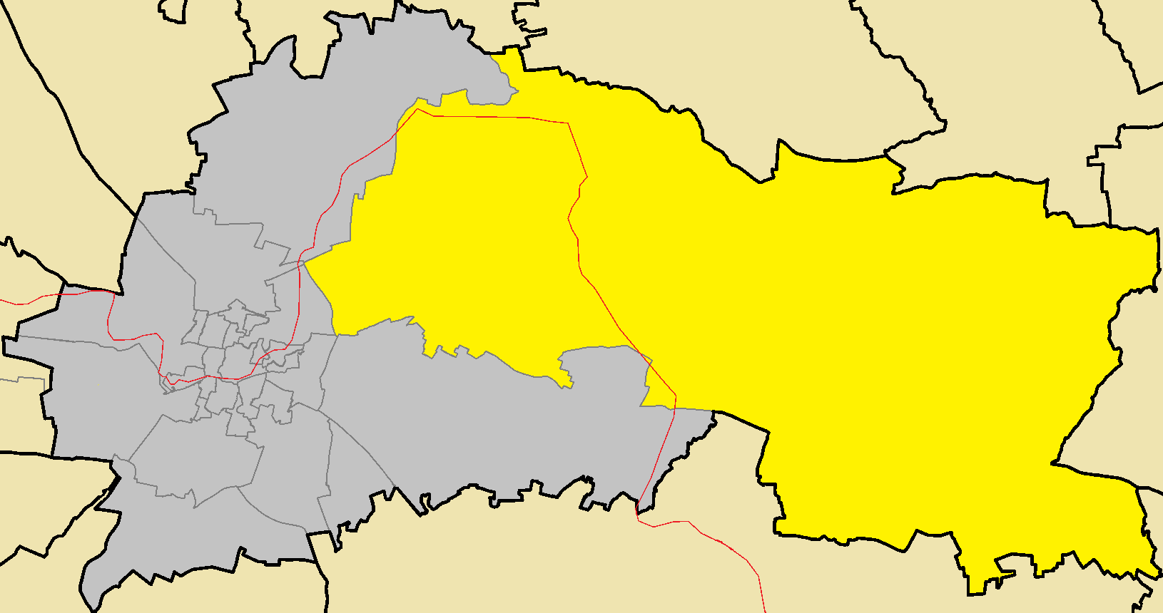 Kaimakli in Nicosia Municipality (de jure).